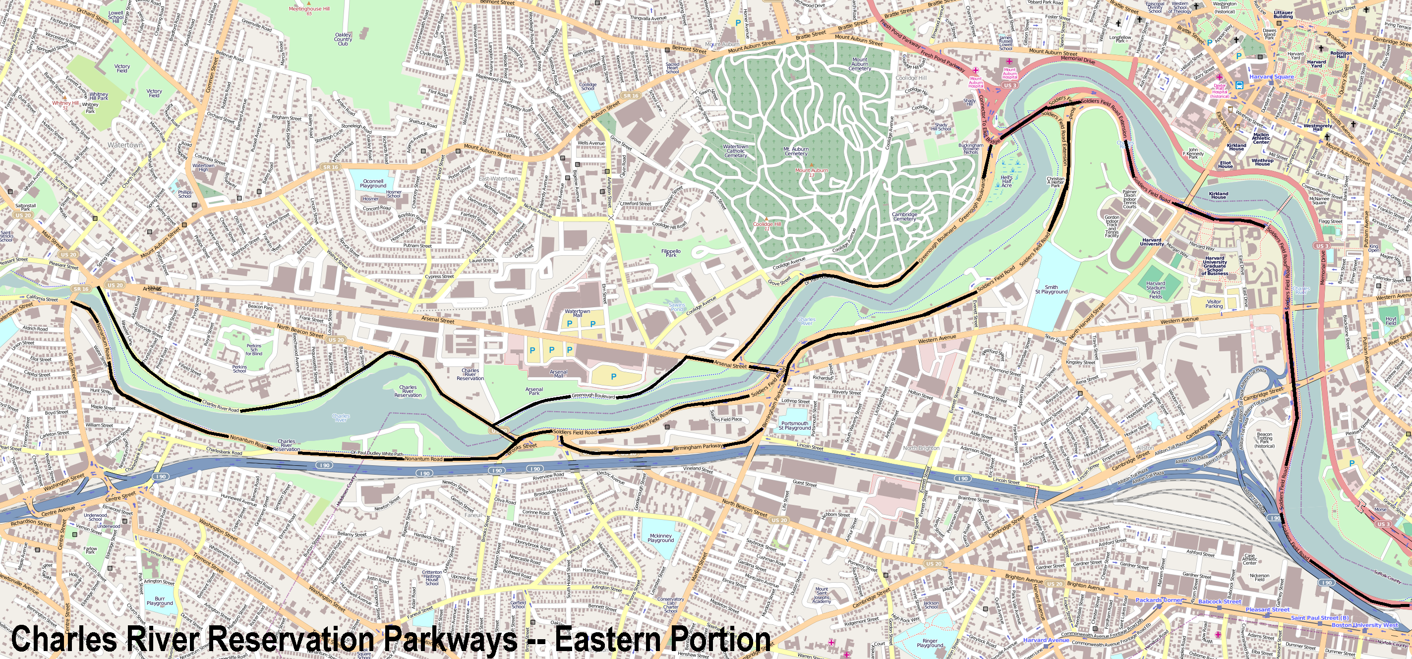 Charles River Reservation Parkways, Boston, Watertown, Newton, and Weston Massachusetts. This is the eastern portion of the collection.